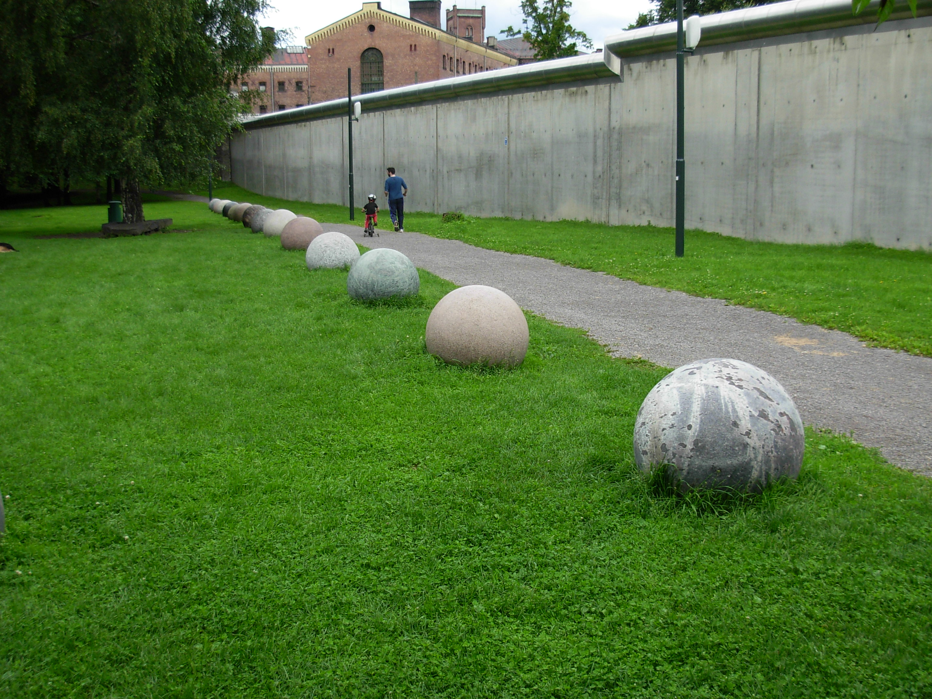 Klosterenga skulpturpark, stones from each county in Norway